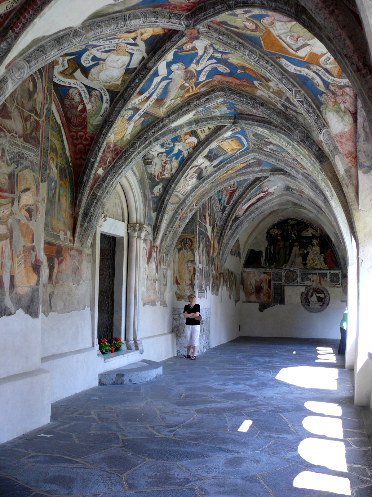 Cloister paintings at the cathedral in Brixen, South Tyrol (Italy)